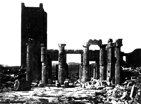 The Frankish Tower (left) was built on the Acropolis – next to the Propylaea (right) – during the Frankish rule. It was dismantled in 1874.